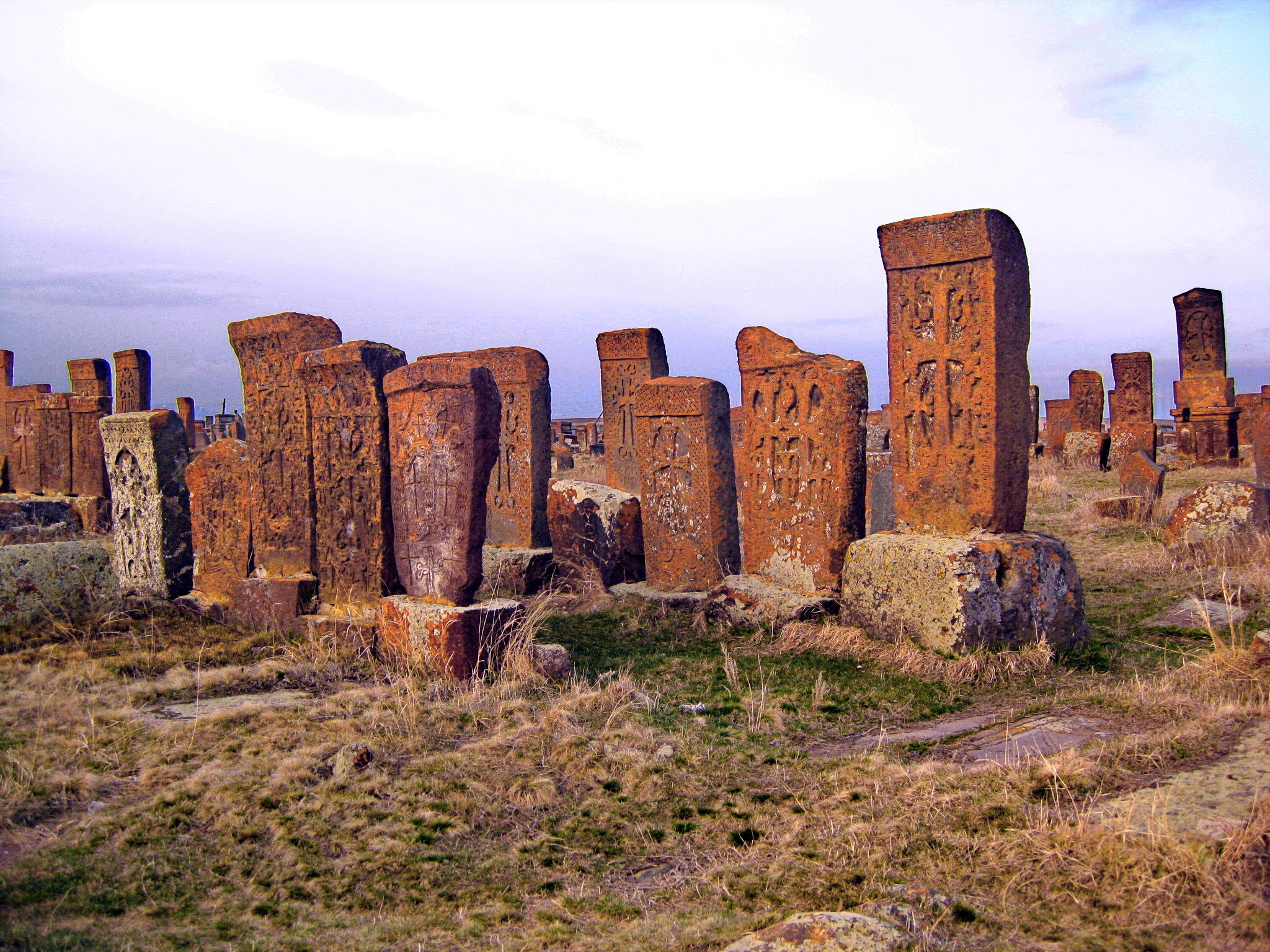 Khachkar complex in Noratus